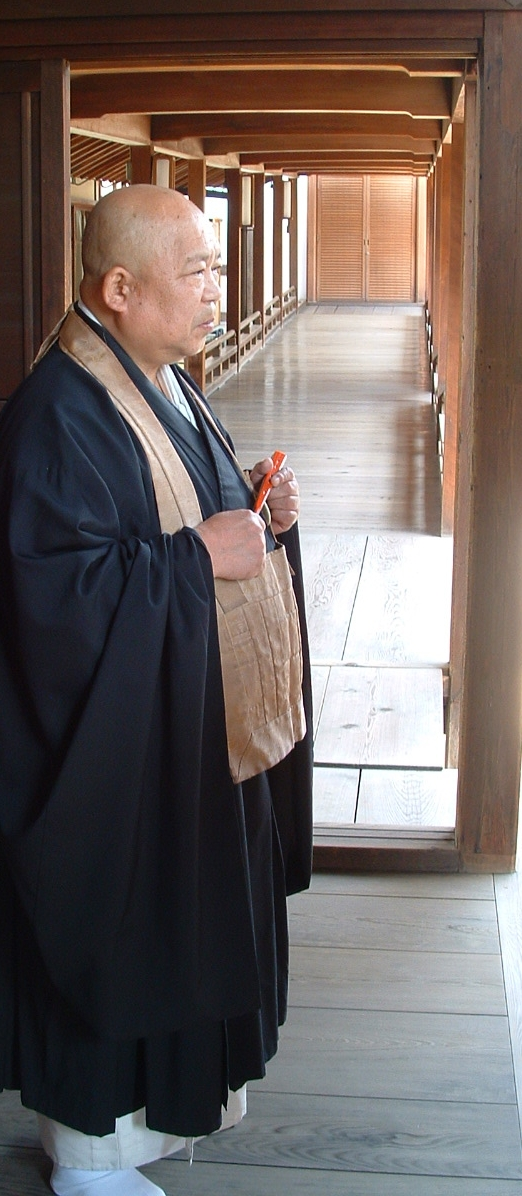 Hozumi Gensho Roshi in Myoshin-ji Photograph by Gakuro